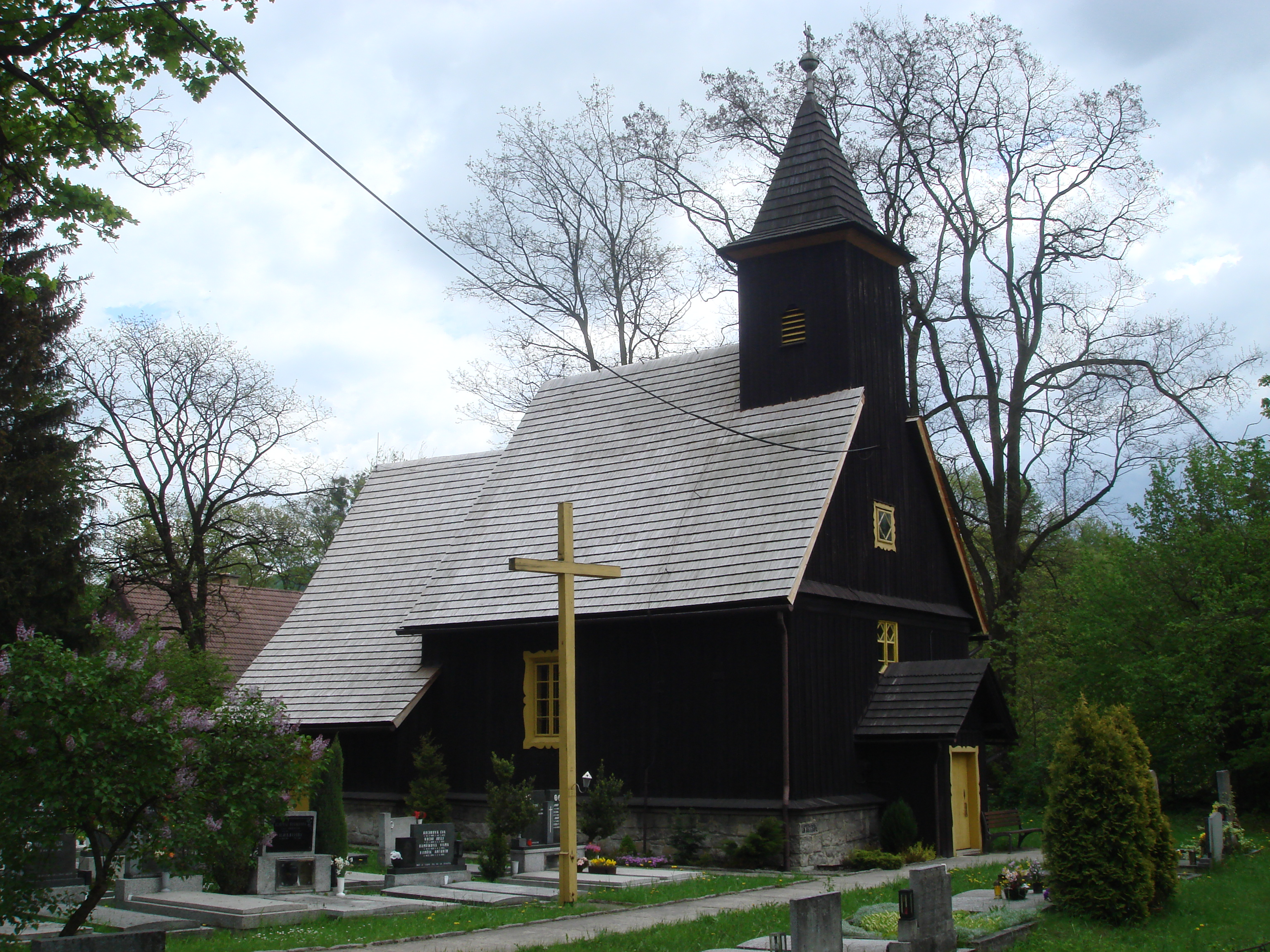 Saint Nicholas Church in Nýdek (Moravian-Silesian Region, Czech Republic).